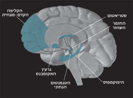 Dopamine Pathways. In the brain, dopamine plays an important role in the regulation of reward and movement. As part of the reward pathway, dopamine is manufactured in nerve cell bodies located within the ventral tegmental area (VTA) and is released in the nucleus accumbens and the prefrontal cortex. Its motor functions are linked to a separate pathway, with cell bodies in the substantia nigra that manufacture and release dopamine into the striatum.